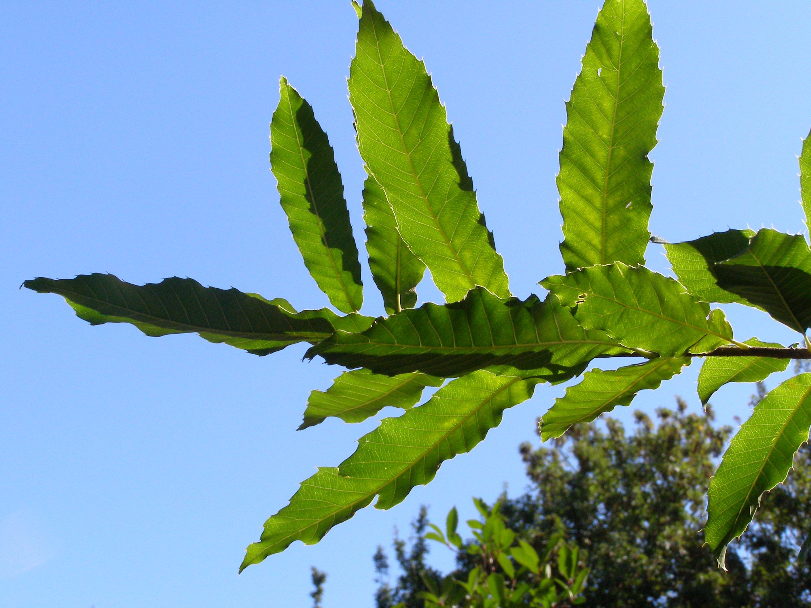 Sawtooth Oak.) Palácio de Cristal, Porto, Portugal. Tree offered by the Arboretum Trompenburg, Rotterdam.